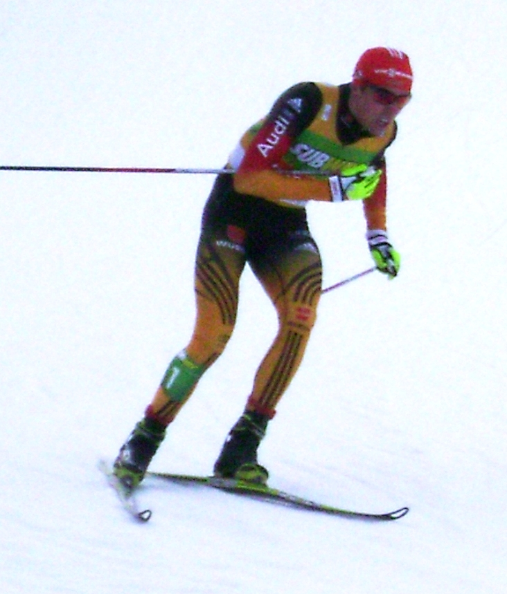 German nordic combined skier Johannes Rydzek at Lahti Ski Games 2014.